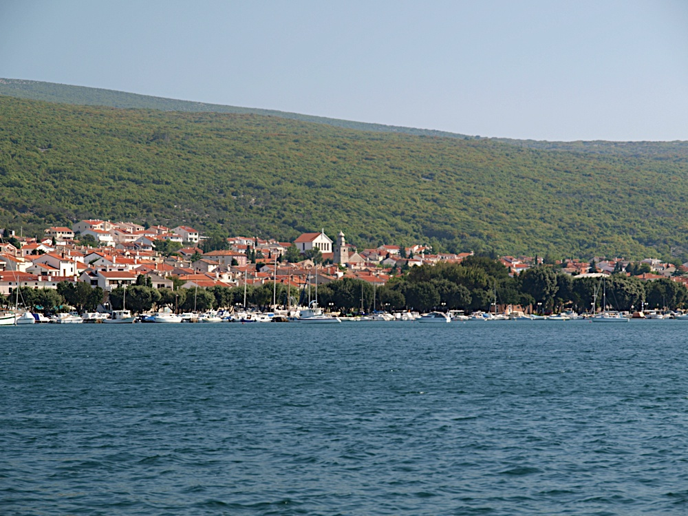 View on the Punat from the Puntarska cove.